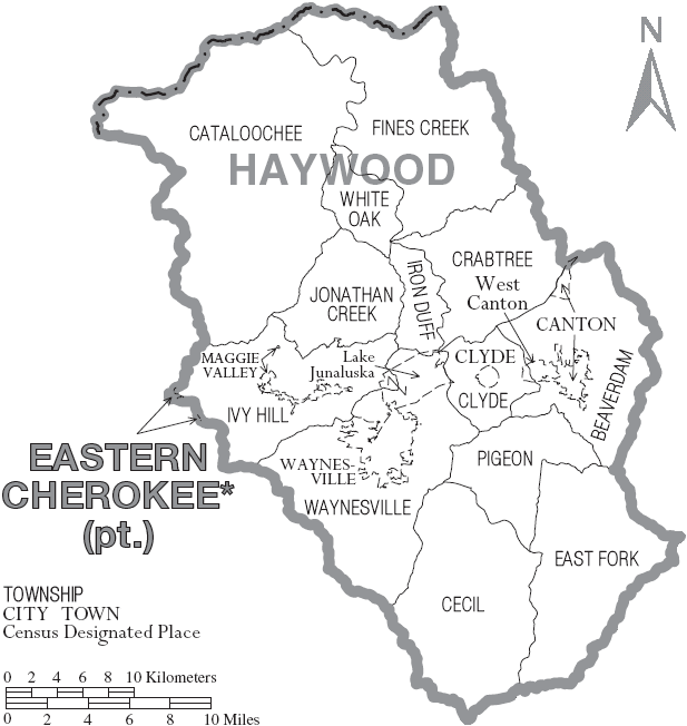 Map of Haywood County, North Carolina, United States with township and municipal boundaries